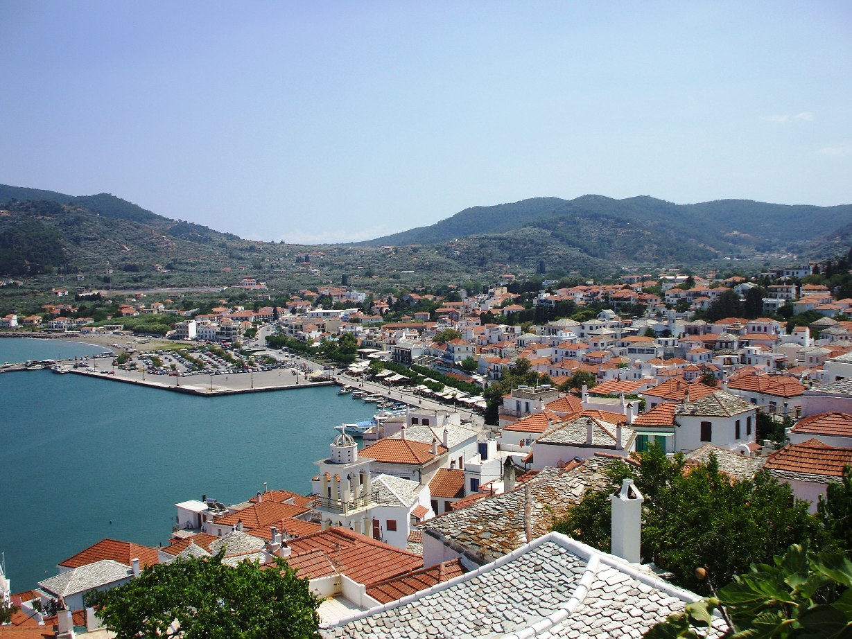 View of Skopelos town on the namesake island in the Aegean Sea, Greece.